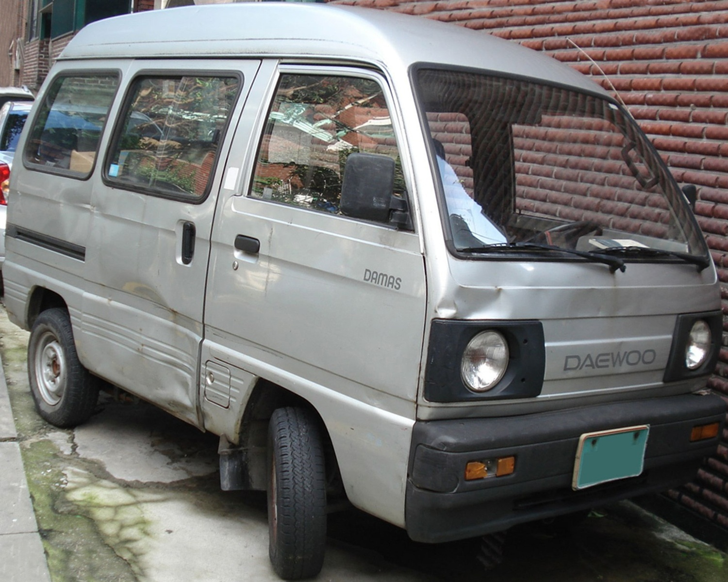 Daewoo Damas